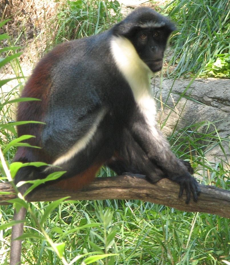 Diana Monkey at Cincinnati Zoo